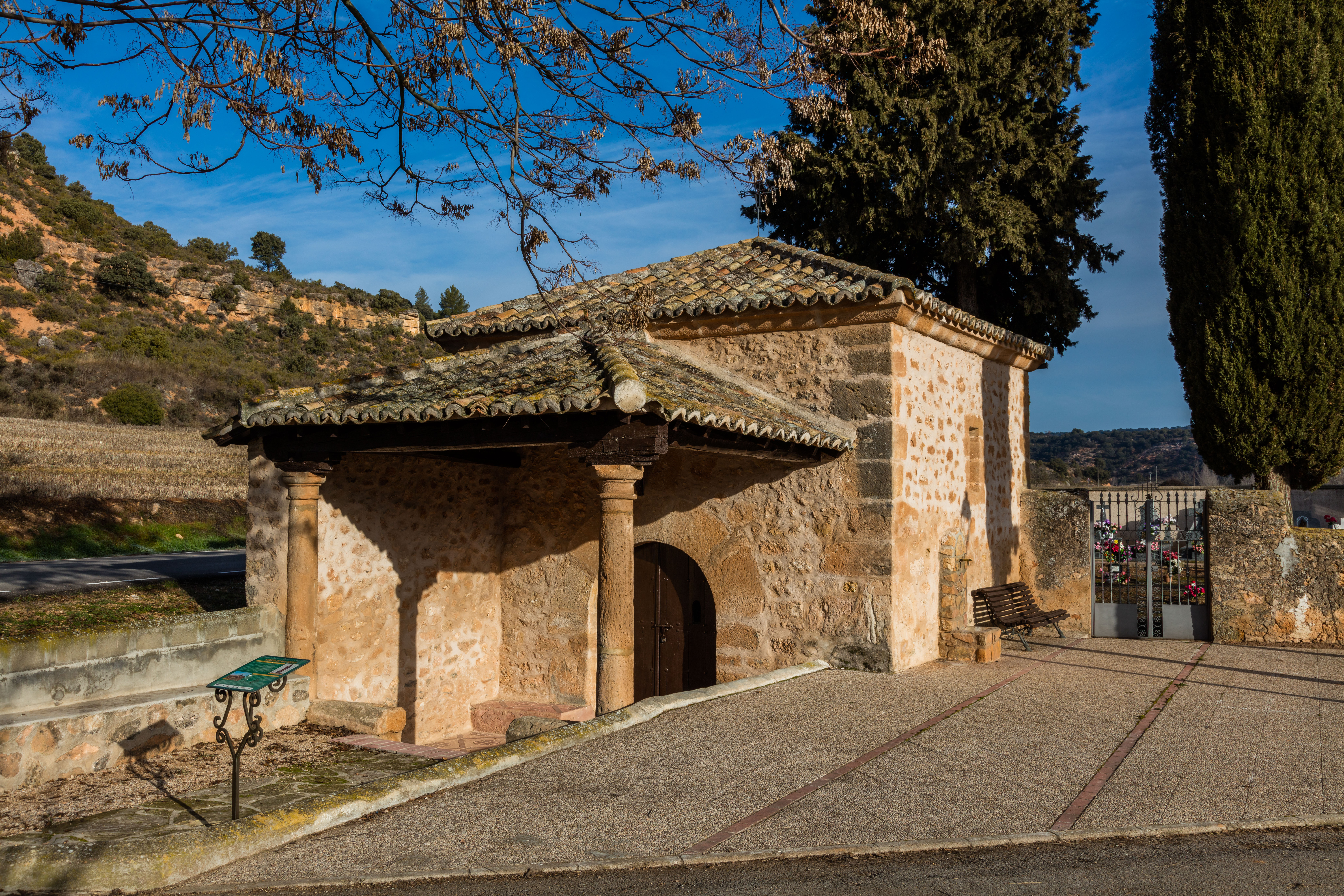 Hermitage of St Roque, Henche, Guadalajara, Spain